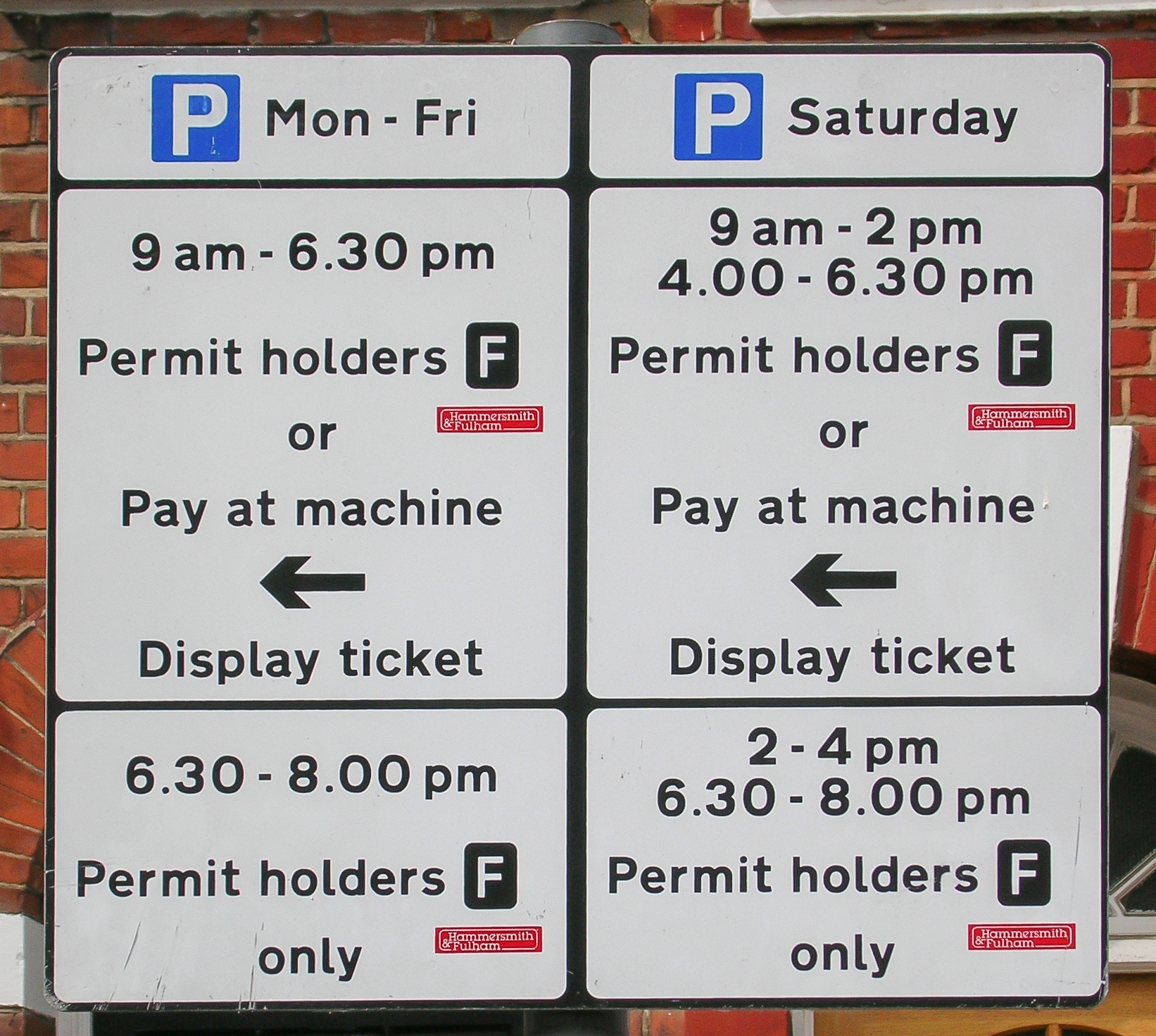 Roadside parking restriction notice in Fulham